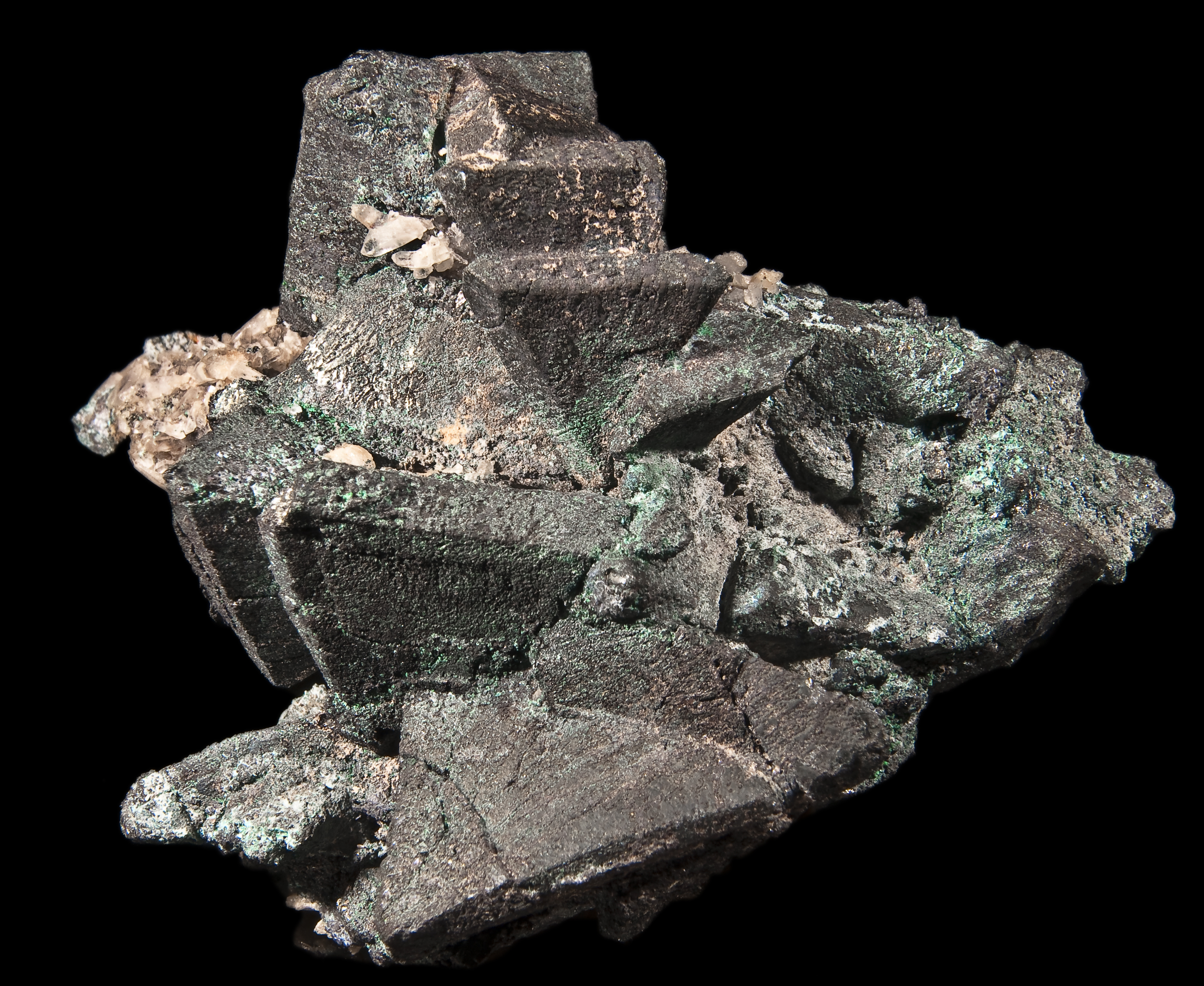 Tennantite Locality: Tsumeb Mine (Oshikoto) Region, Namibia Size :7 × 7 cm